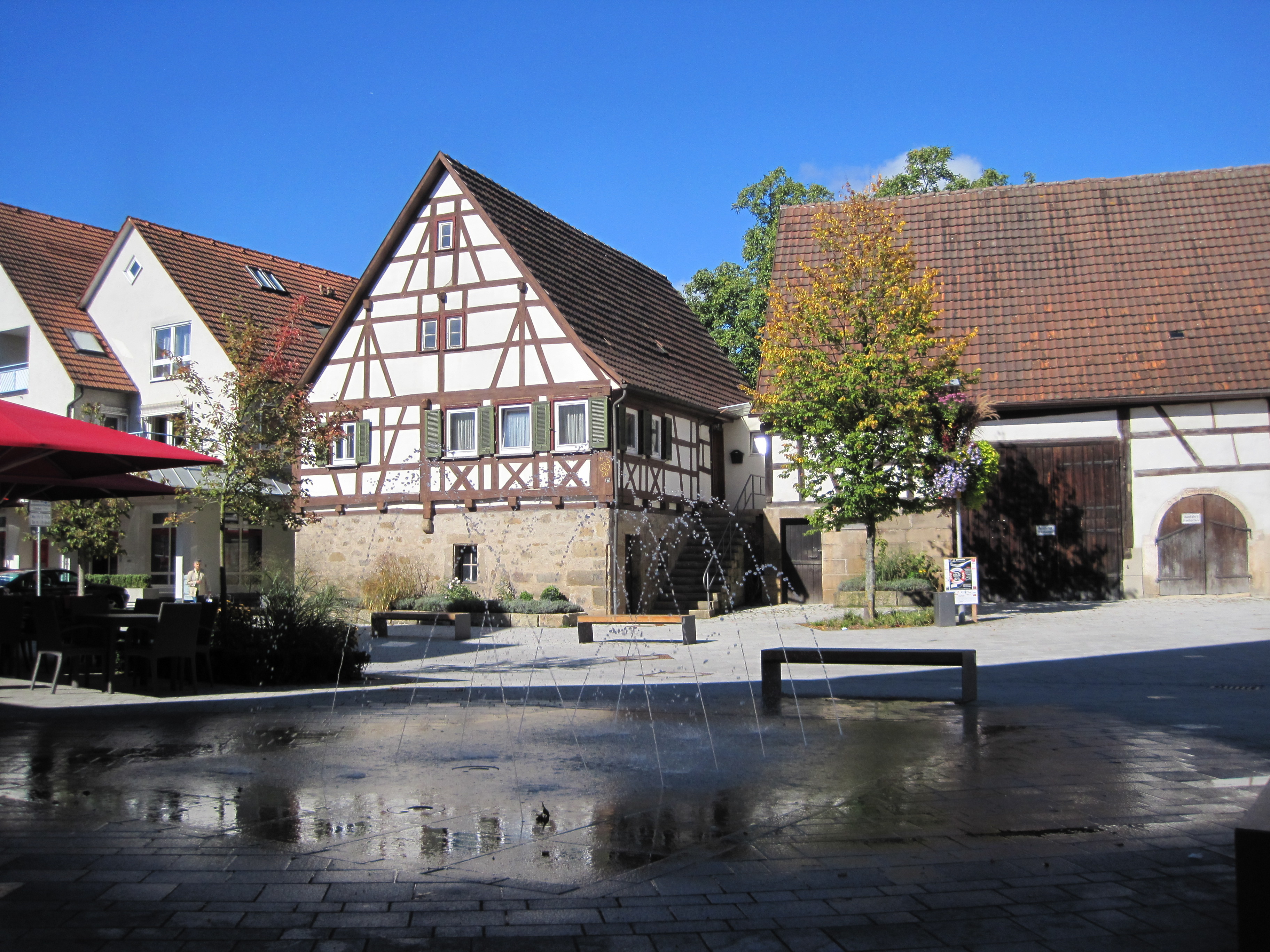 street view in Neckartenzlingen, Germany